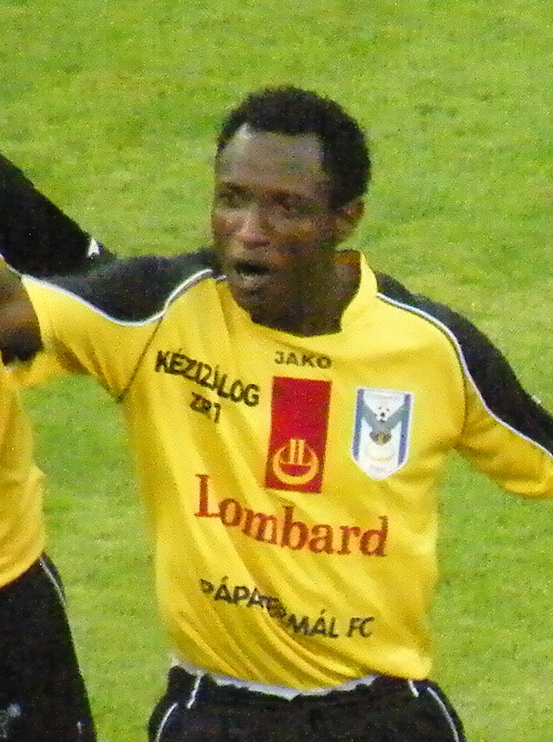 David Abwo association football player from Nigeria.